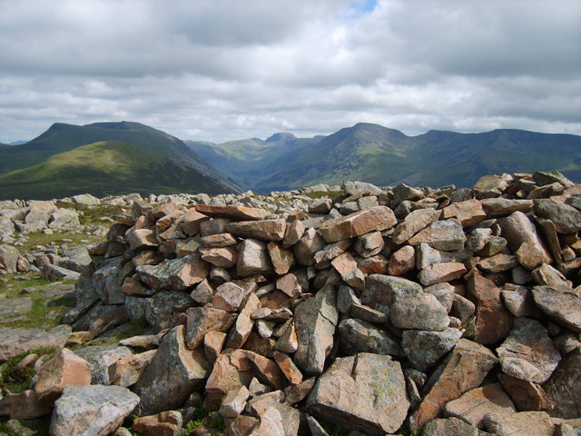 Windshelter, Great Borne On the top near the Trig pillar